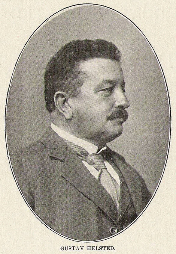 Composer etc. Gustav Helsted (30. Januar 1857 - 1. March 1924)